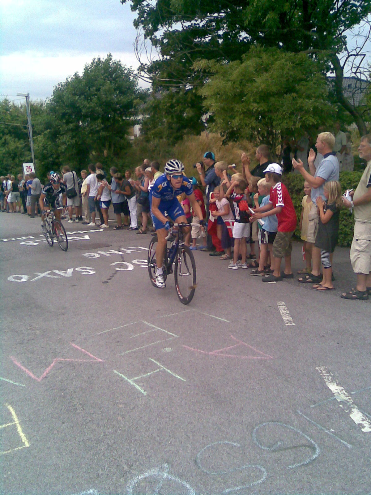 Kristoffer Gudmund Nielsen (blue) and Martin Mortensen (black) just after the first hillsprint (at Nørrebjerg, Lemvig) in Post Danmark Rundt 2008 (1st stage).